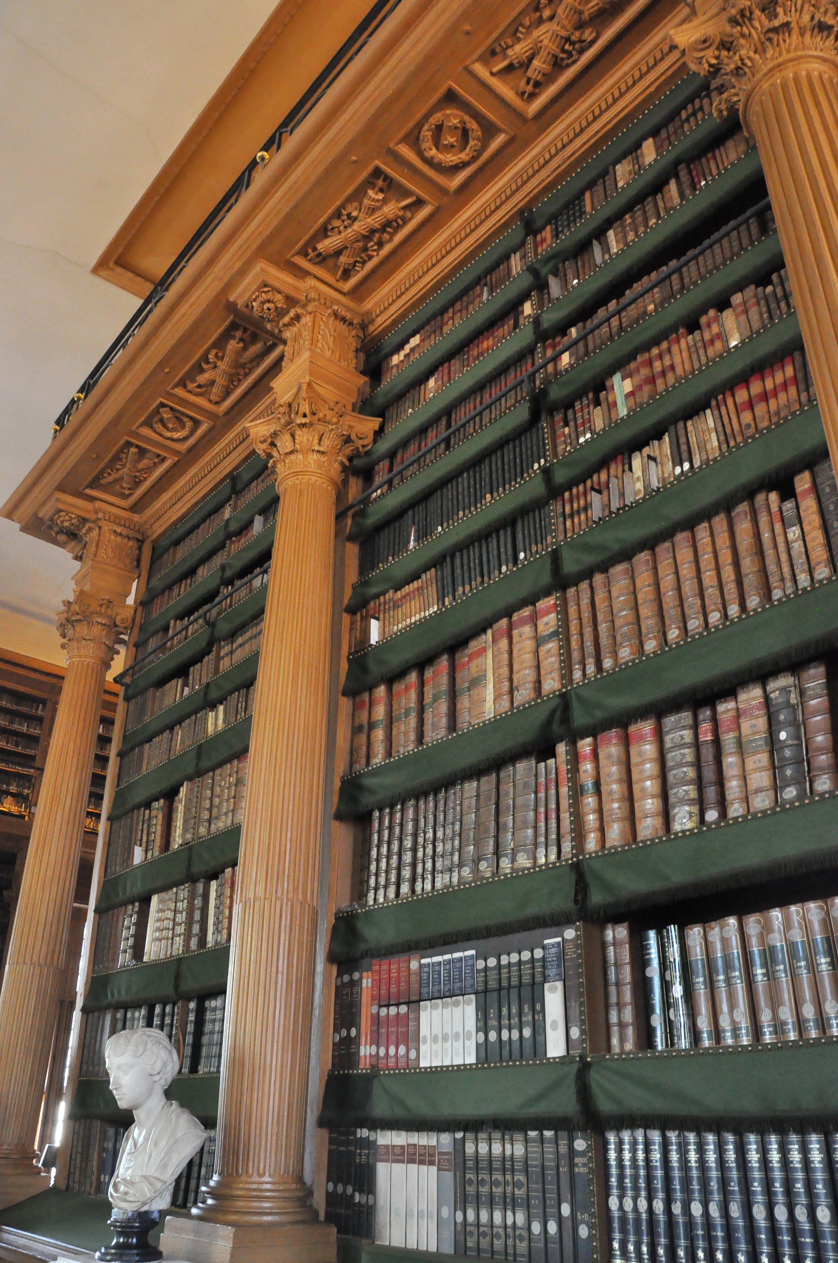 Interior of Bibliothèque Mazarine located in the 6th arrondissement of Paris in France.